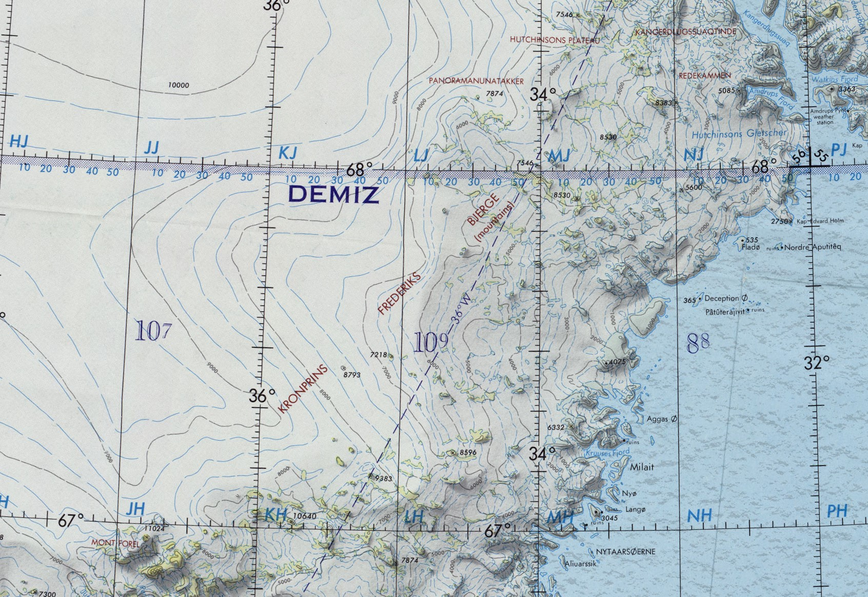 The Crown Prince Frederick Range in the Greenland 1:1,000,000 scale Operational Navigation Chart, Sheet C-13, 3rd edition.